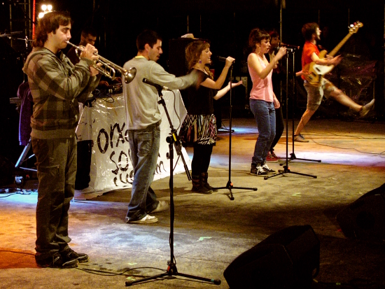 Valencian drum and bass ensemble and copyleft activists Orxata Sound System performing live in Valencia's bull ring